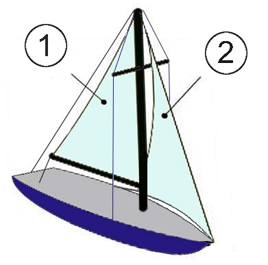 Sails of a bermuda rigged sloop: 1 - main sail; 2 - head sail